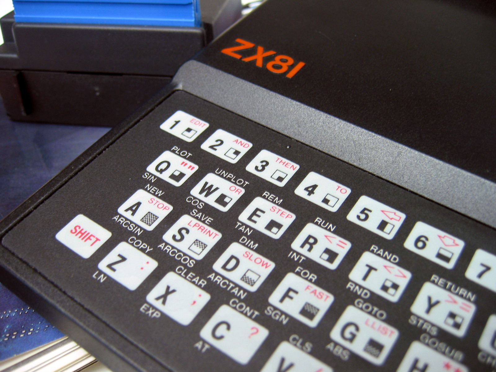 Original caption: "My first computer, the incredible Sinclair ZX-81 (with 16K memory module and BASIC manual)"